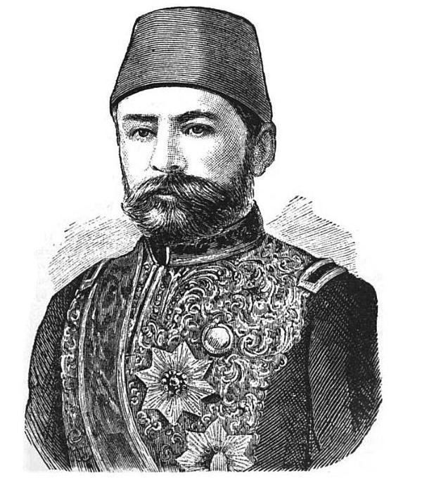 Ahmed Muhtar Pasha (1839- 1919) Ottoman general and Grand Vizier